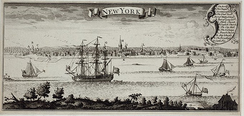 Early view of New York City harbor. Image Title: New York A. The Fort; B. The Chappel; C. Secretary Office; D. The Great Dock; E. Part of Nutten Island; F. Part of Long Island; G. Dutch Church; H. English Church; I. The City Hall; K. The Exchange; L. French Church; M. Ship Warfes; N. The Ferry House; O. Cattle Pen Creator: Emmet, Thomas Addis, 1828-1919 -- Collector Specific Material Type: Prints Source: Emmet Collection of Manuscripts Etc. Relating to American History. / Duer's Old Yorker. Retouched by MarmadukePercy.